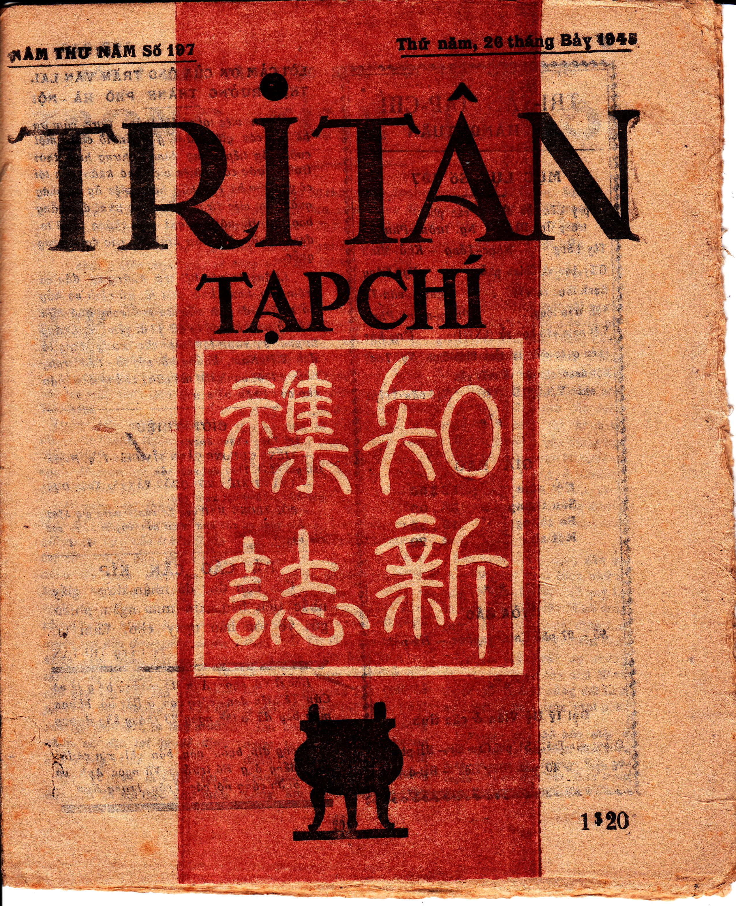 Cover of Tri-tan Magazine 1945